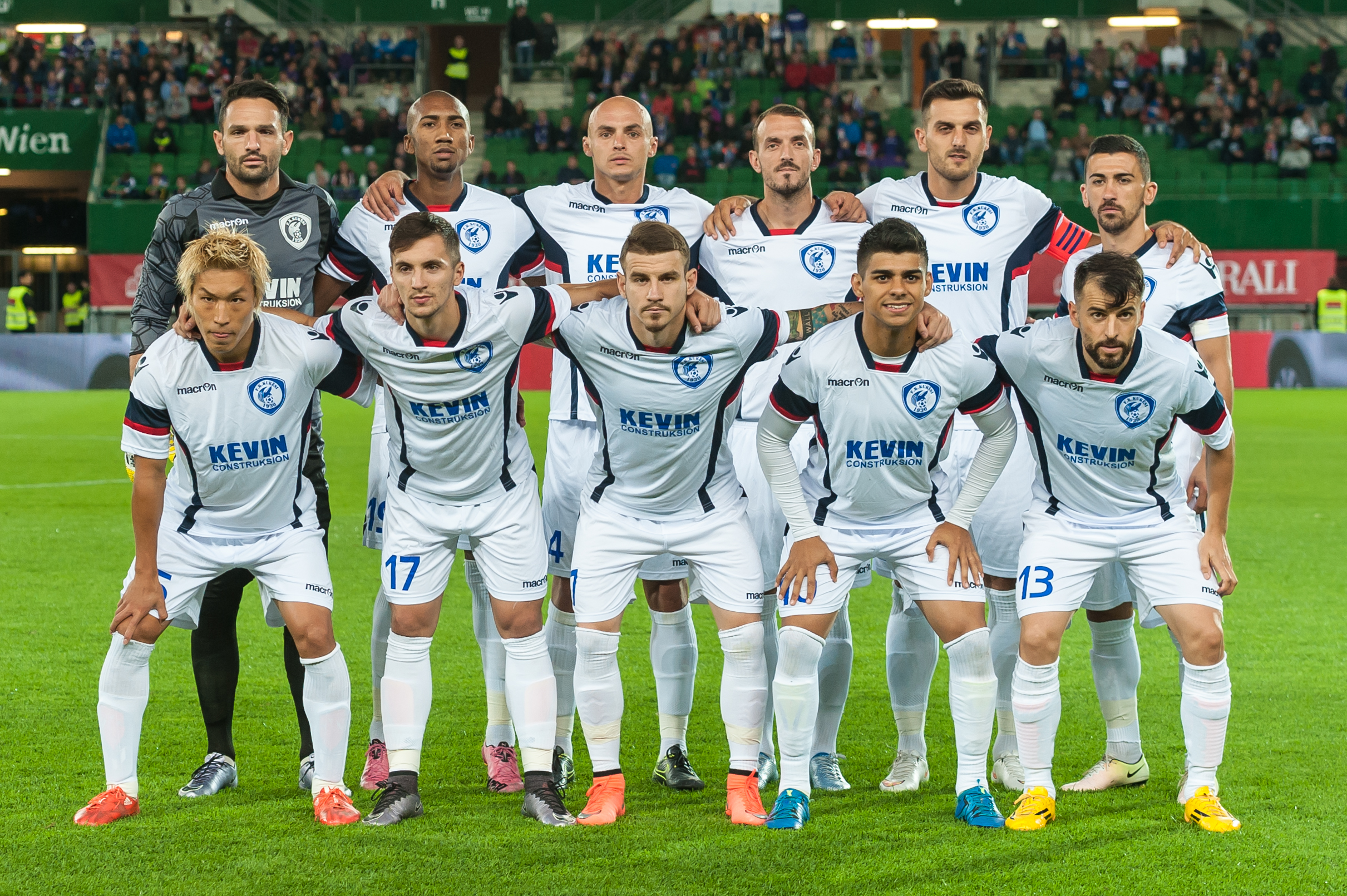 UEFA Europa League - FK Austria Wien vs FK Kukesi, 2016-07-14.